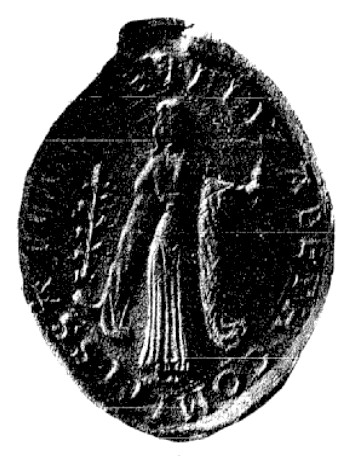 Elisabeth, comtesse de Flandre (1170)